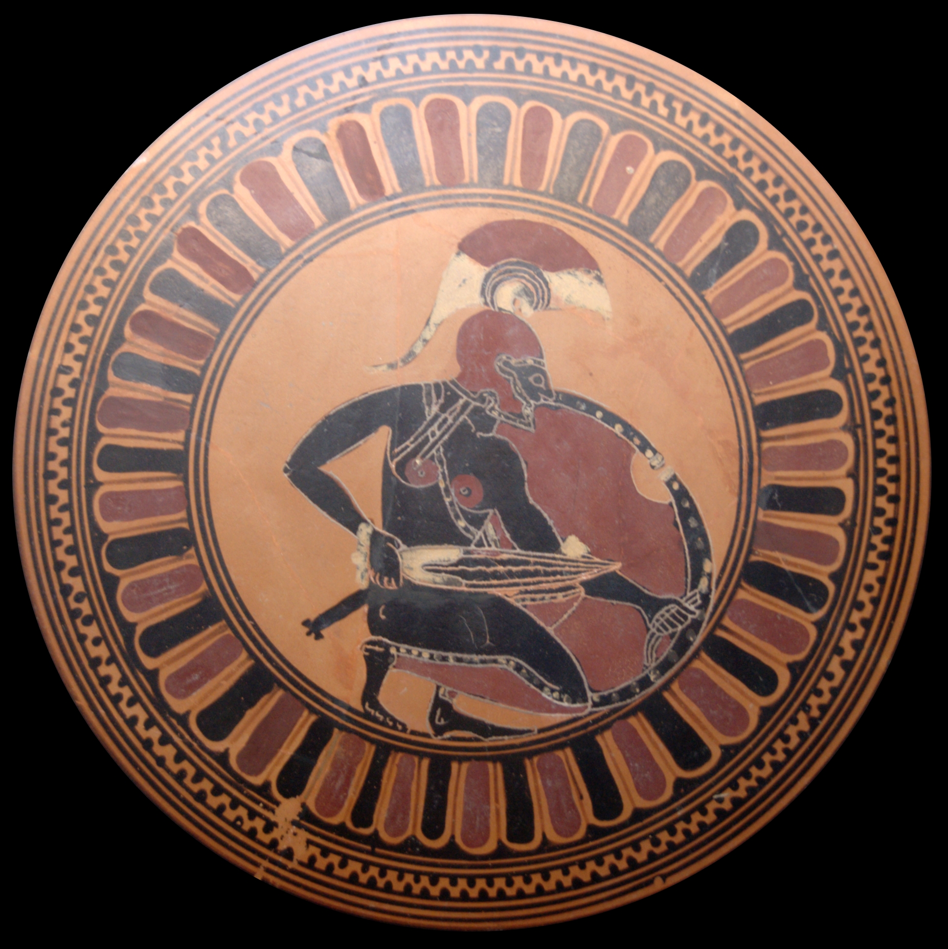 Knelt warrior with decladded sword: Achilles waiting for Troilus? Tondo of an Attic black-figure kylix, ca. 560 BC.